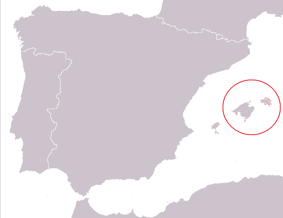 Podarcis lilfordi range map.